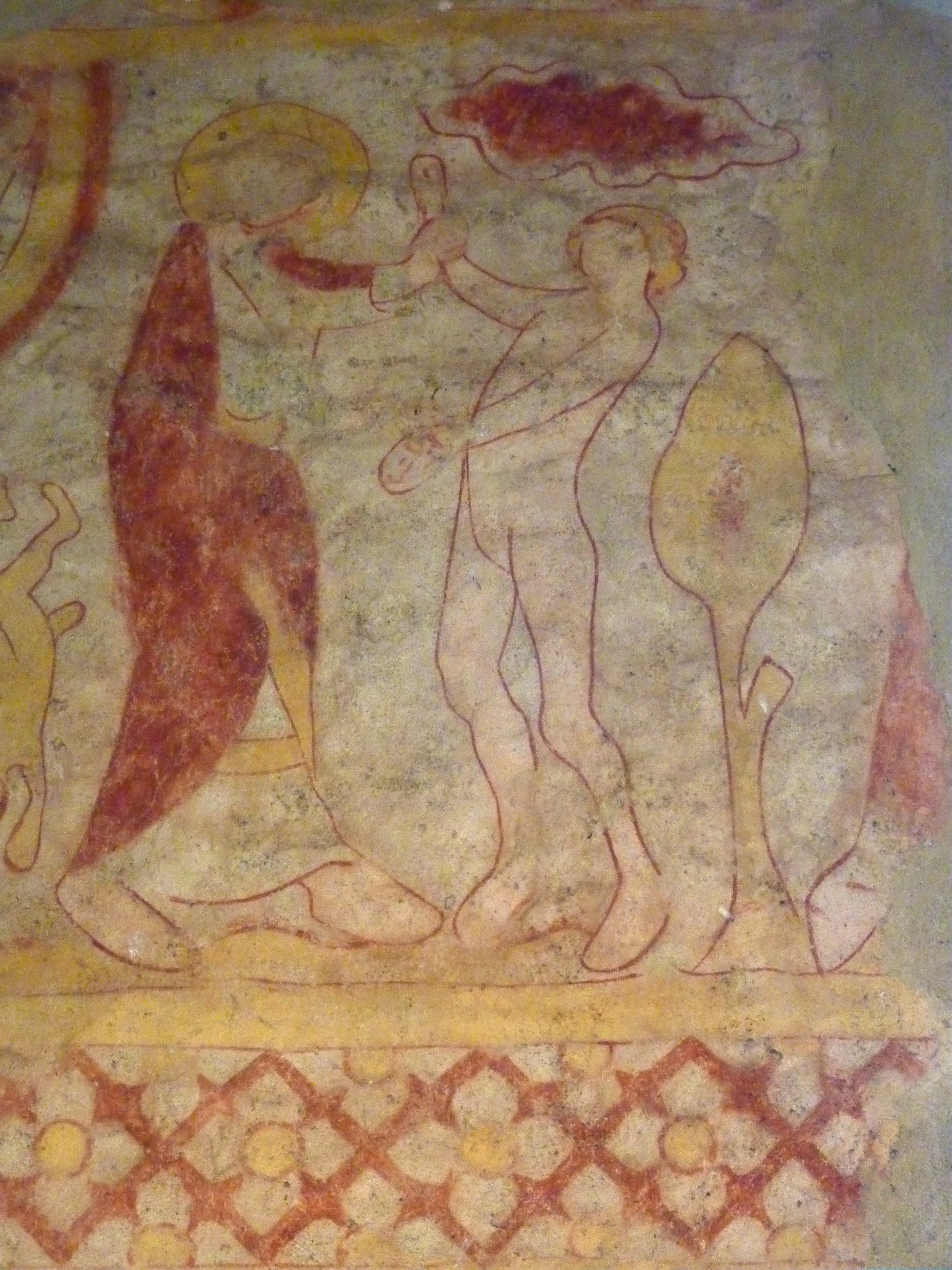 Fresco in the Saint-Ulrich chapel, Westhouse, Bas-Rhin, France. Adam's creation